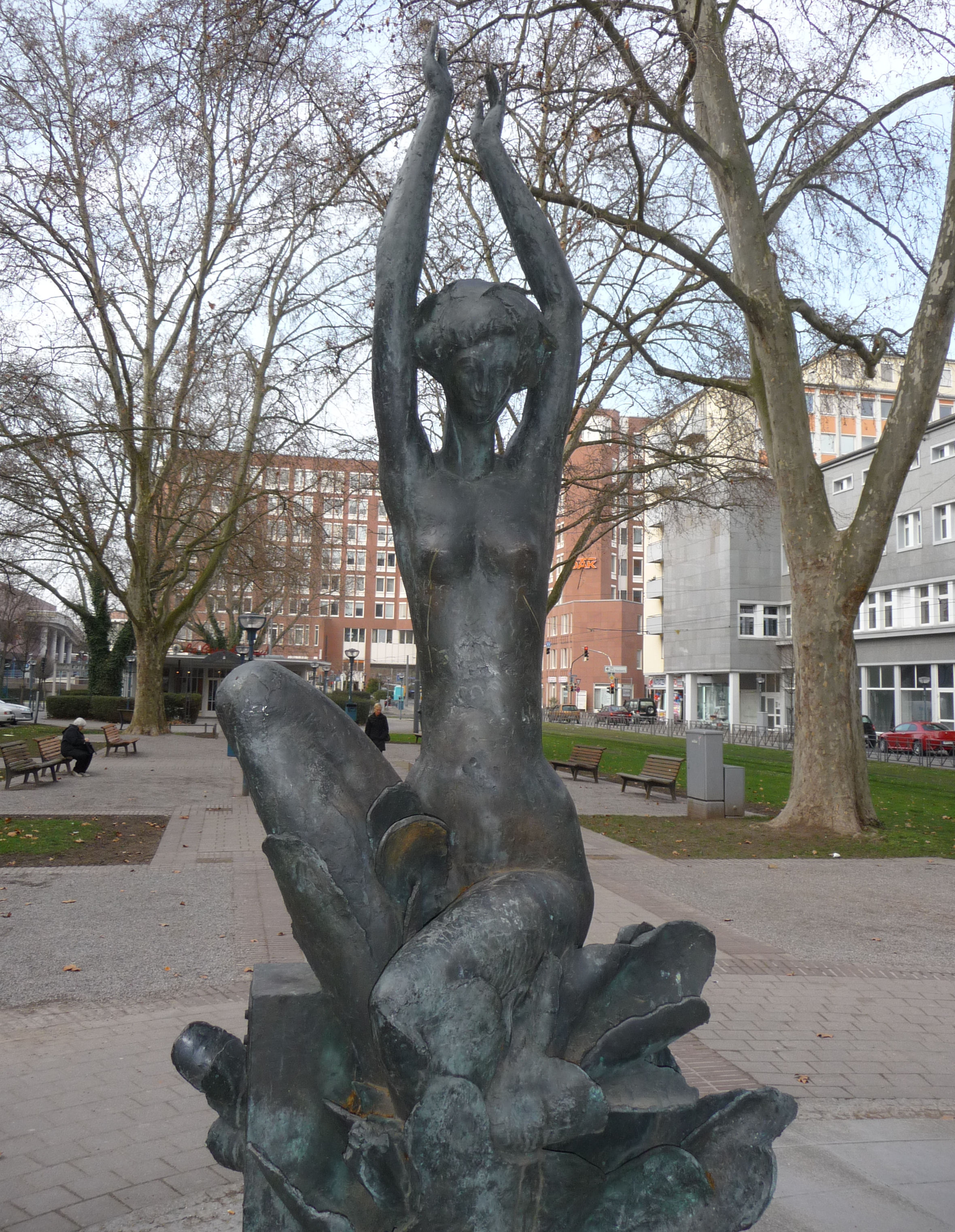 Sculpture Ludwina (1988) by Erich Koch in Ludwigshafen, Germany